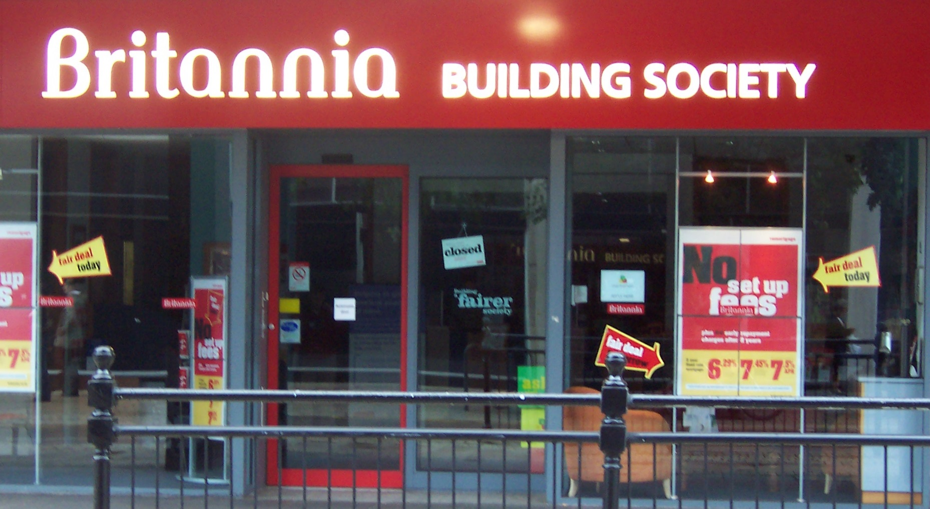 A branch of the former Britannia Building Society in Peterborough, Cambridgeshire.